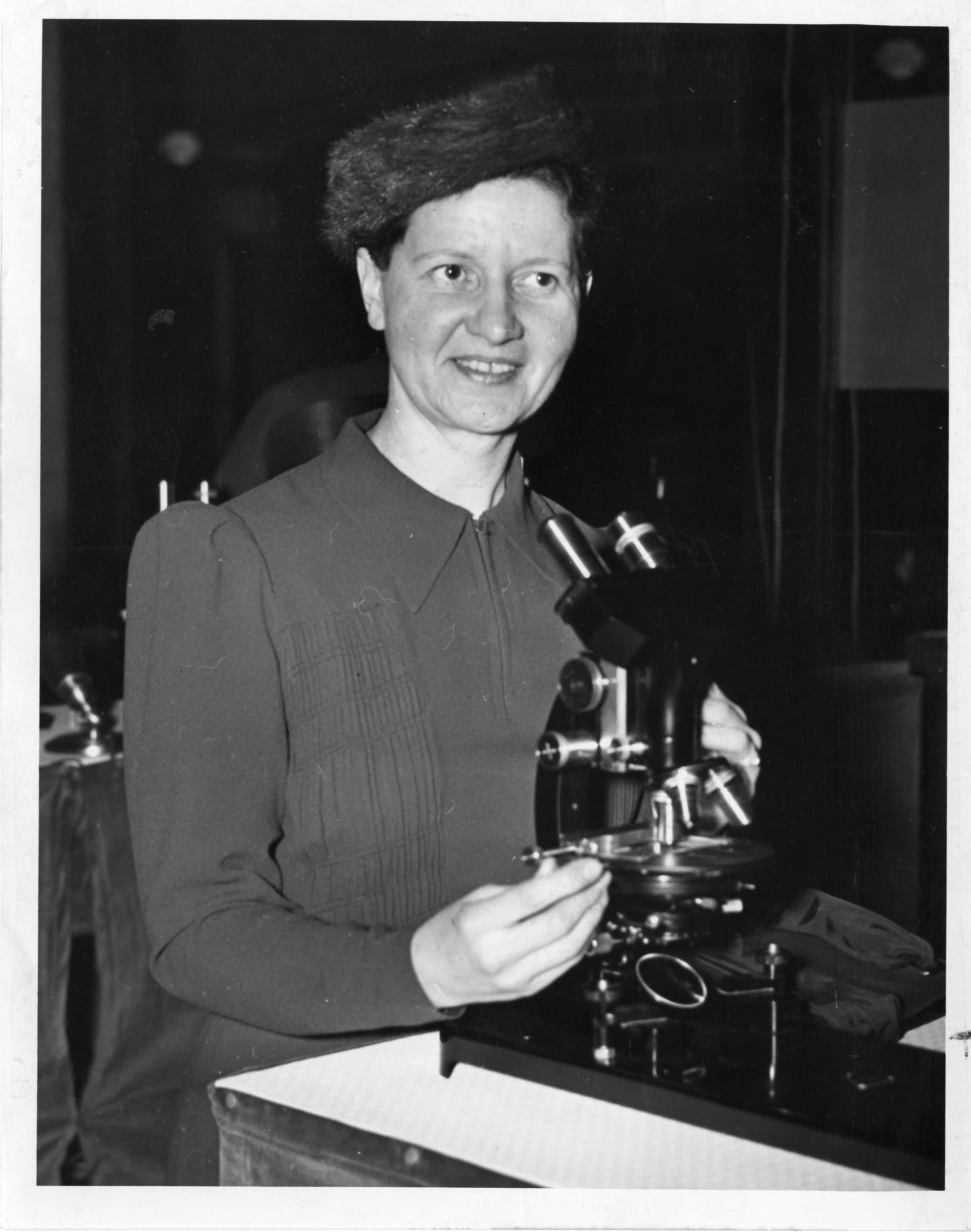 Description: Wanda Margarite Kirkbride (b. 1895) was completing graduate work in chemistry at Columbia University when she met and married Clifford Harrison Farr. When Clifford died in 1928, while they were living in St. Louis, Wanda Farr carried on with her research and eventually became Director of the Cellulose Laboratories at the Boyce Thompson Institute for Plant Research in Yonkers, New York, doing pioneering work on cellulose synthesis and plastids. Creator/Photographer: Unidentified photographer Medium: Black and white photographic print Persistent URL: [1] Repository: Smithsonian Institution Archives Accession number: SIA2008-0538